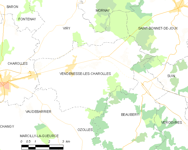 Map of French municipality